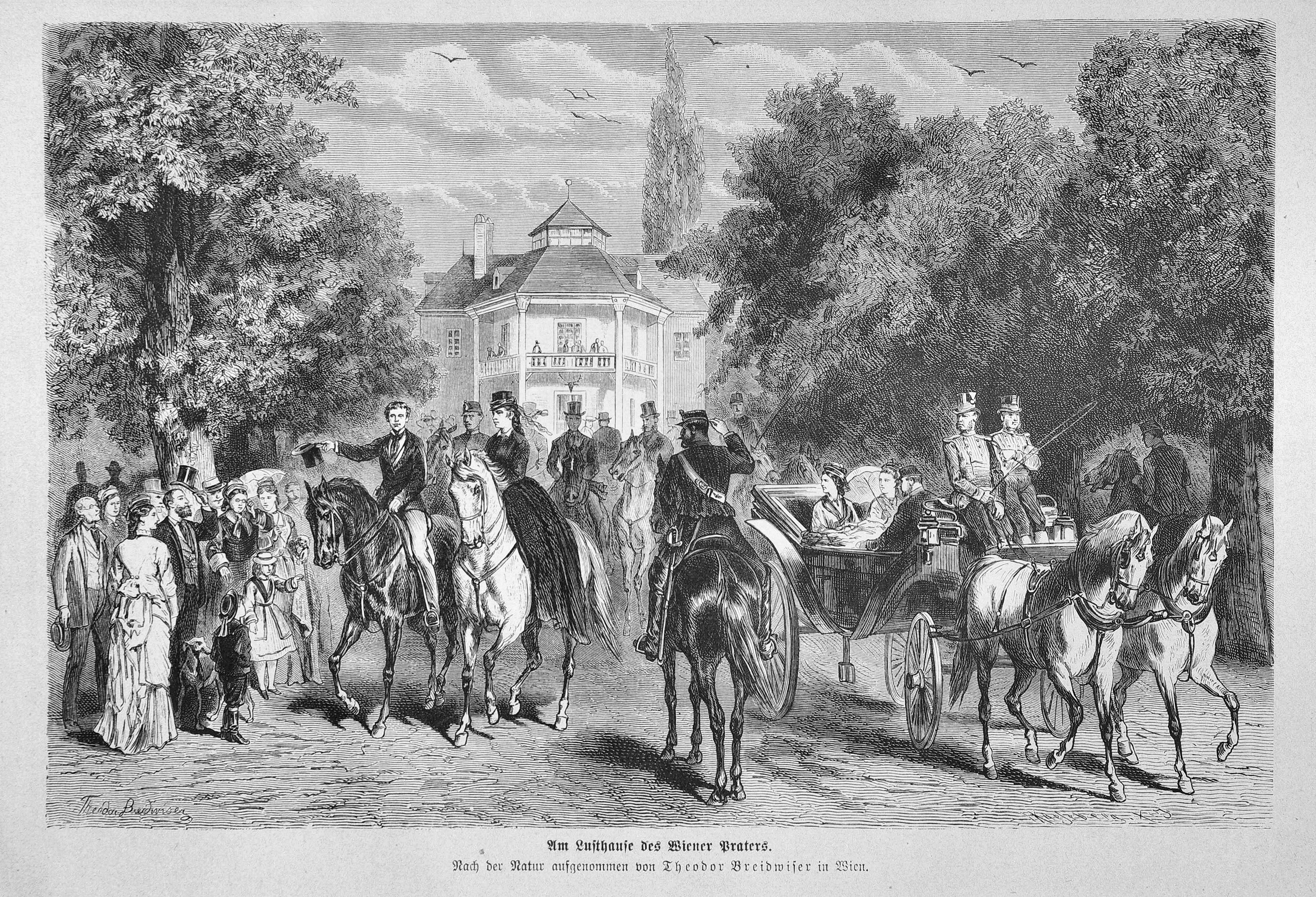 caption: "Am Lusthause des Wiener Praters. Nach der Natur aufgenommen von Theodor Breidwiser in Wien."